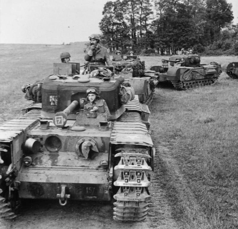 The British Army in the Normandy Campaign 1944 Churchill tanks of 7th Troop, 'B' Squadron, 107th Regiment Royal Armoured Corps, 34th Tank Brigade, 17 July 1944.